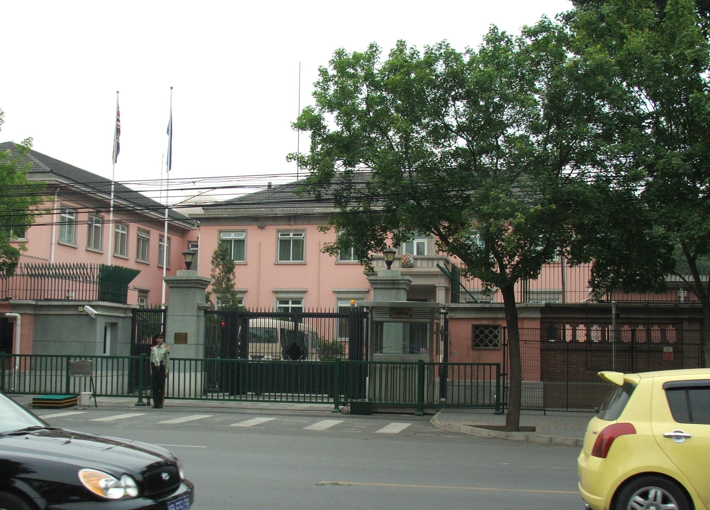 Embassy of the United Kingdom in Beijing - China.